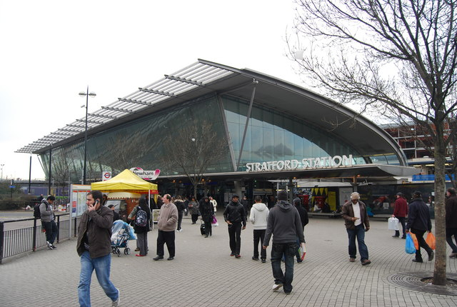 Stratford Station Stratford is a major transport hub in East London. Several overground lines including the cross London line to Richmond pass through here, as well as the Jubilee underground line & DLR. There is also a Channel tunnel link & a bus station outside.